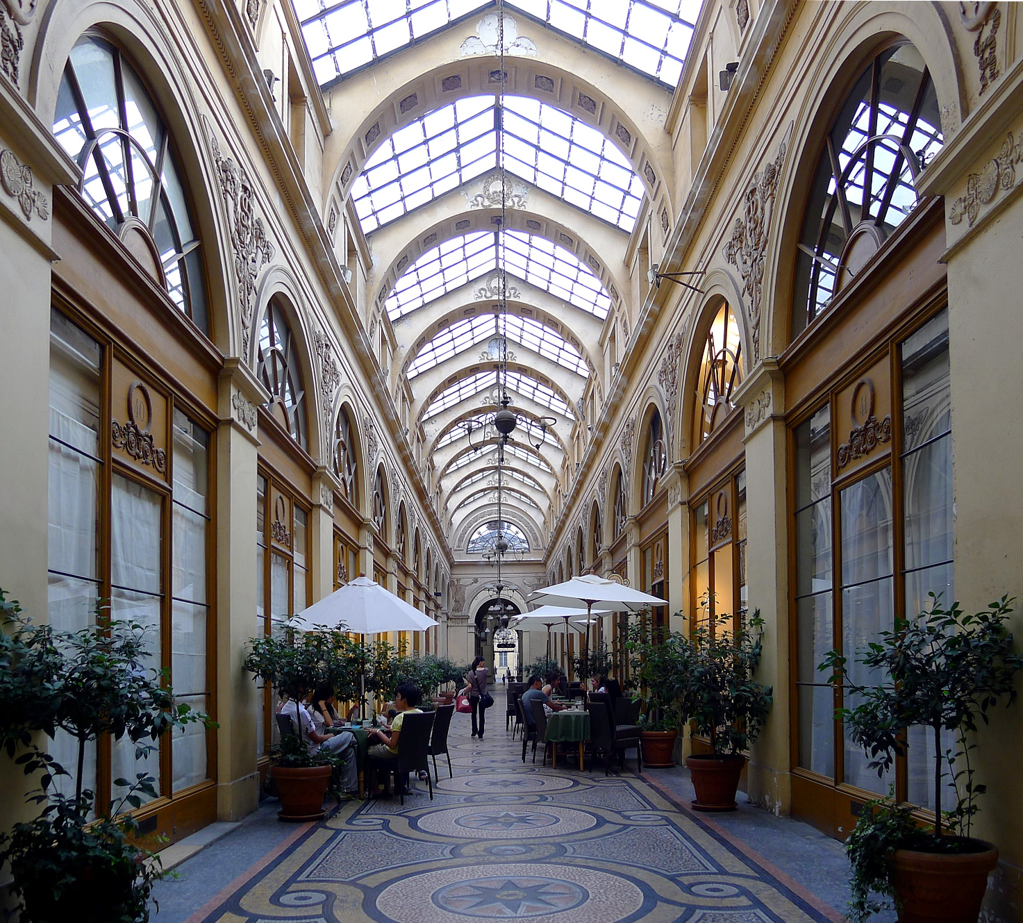 Vivienne gallery - Paris